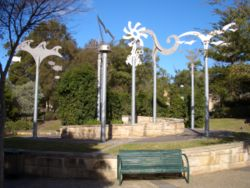 Peace Park, Stapleton Avenue, Sutherland